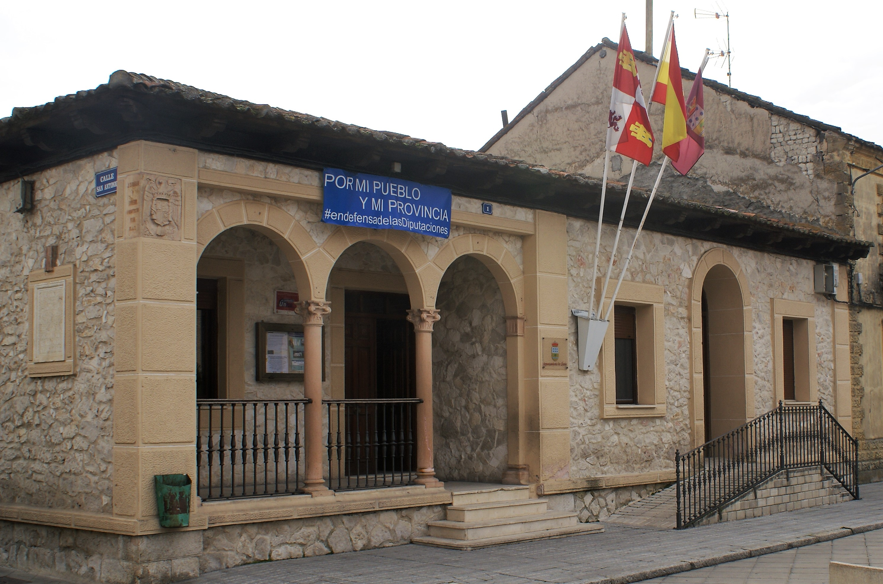 Town hall of Chañe, Segovia, Spain.